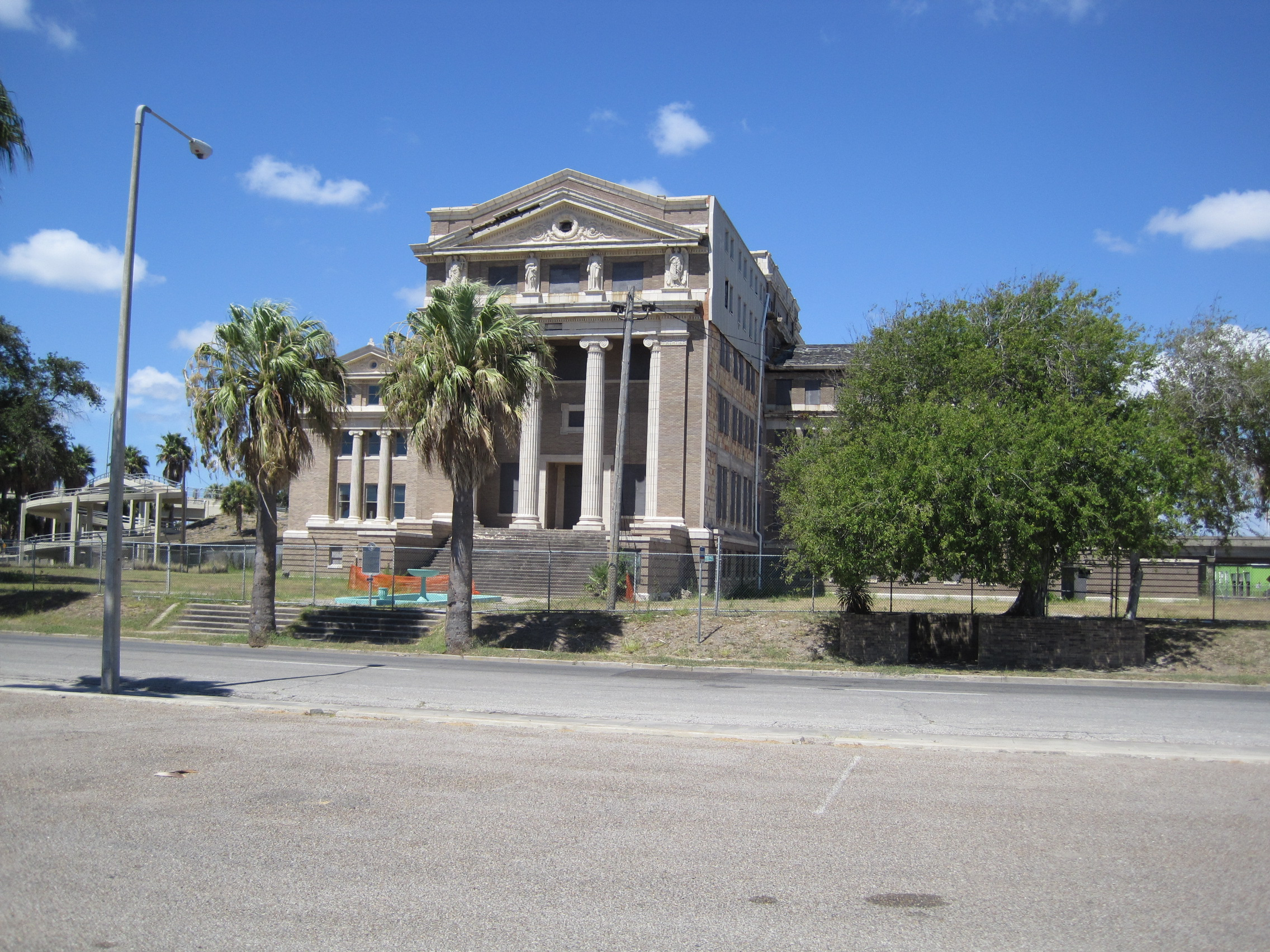 Image of the 1914 Nueces County Courthouse in Corpus Christi Texas. Site is on the National Register of Historic Places.